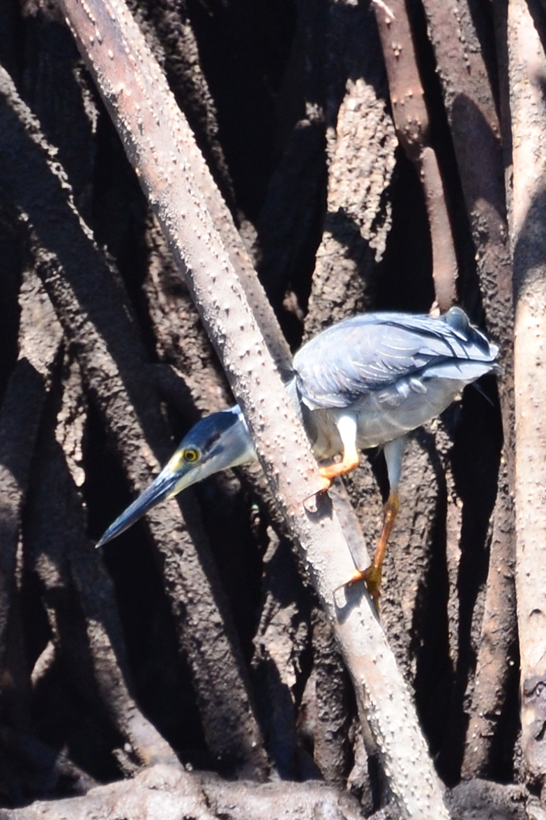 Striated heron (Butorides striata) at Bahowo Swamp, Manado, North SulawesiBahasa Indonesia: Kokokan laut (Butorides striata) di Rawa Pantai Bahowo, Manado, Sulawesi Utara